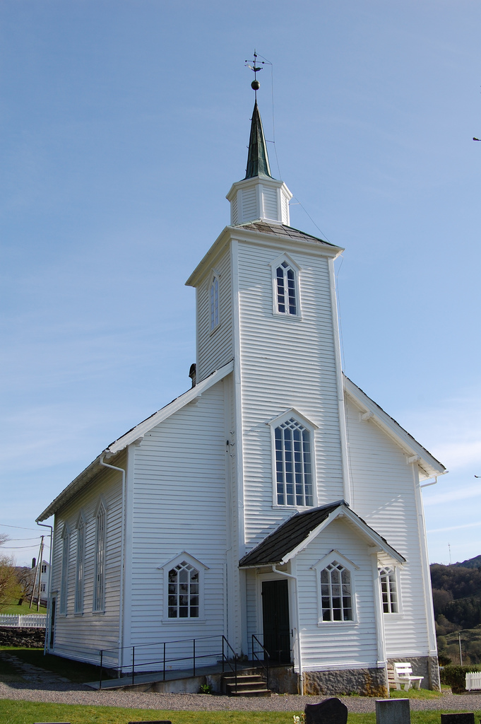 Seim church in Lindås, Hordaland, Norway